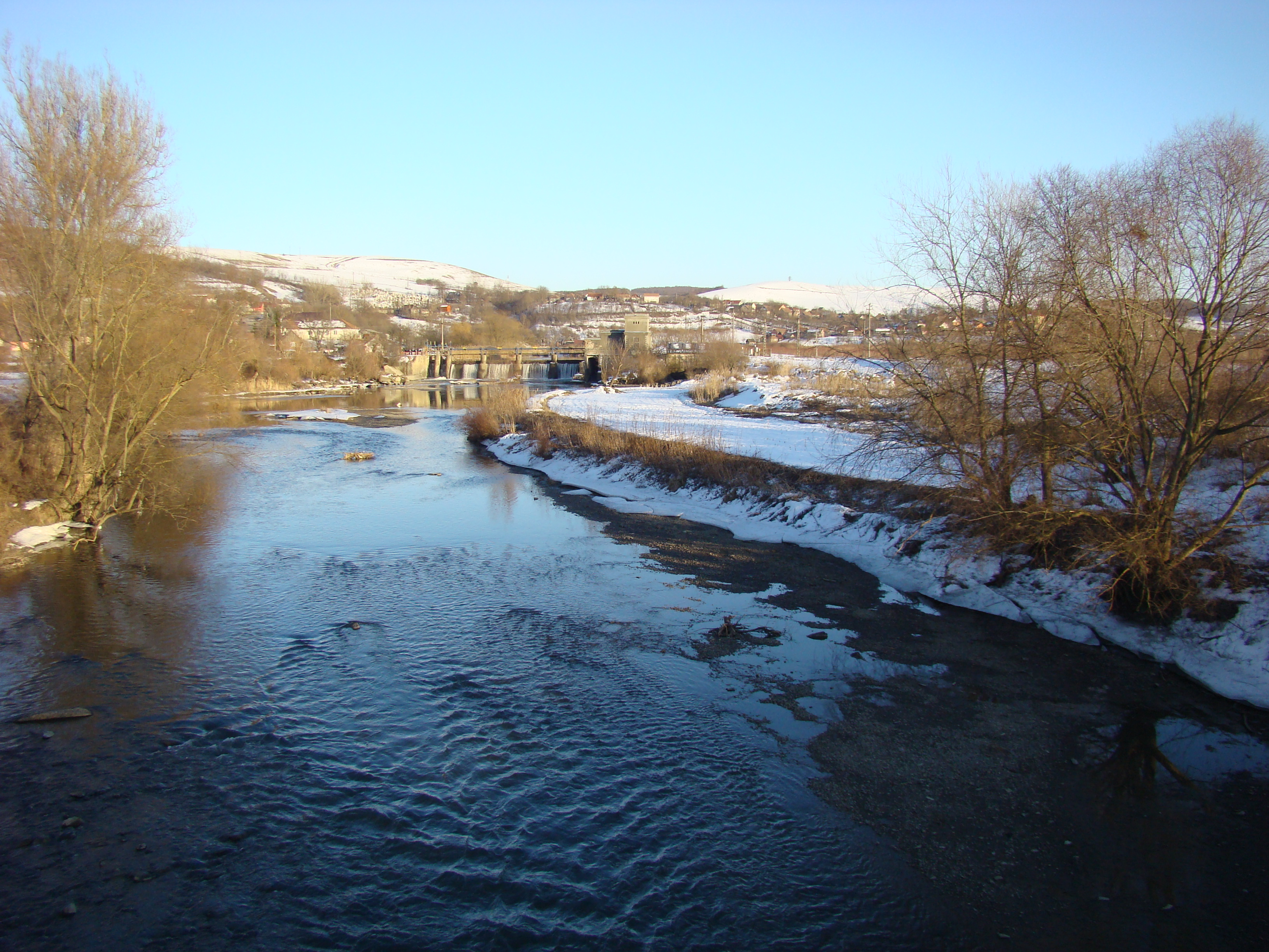 Mănăstirea, Cluj county, Romania